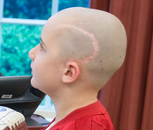 Jack Hoffman looking a President Barack Obama (not pictured), April 29, 2013